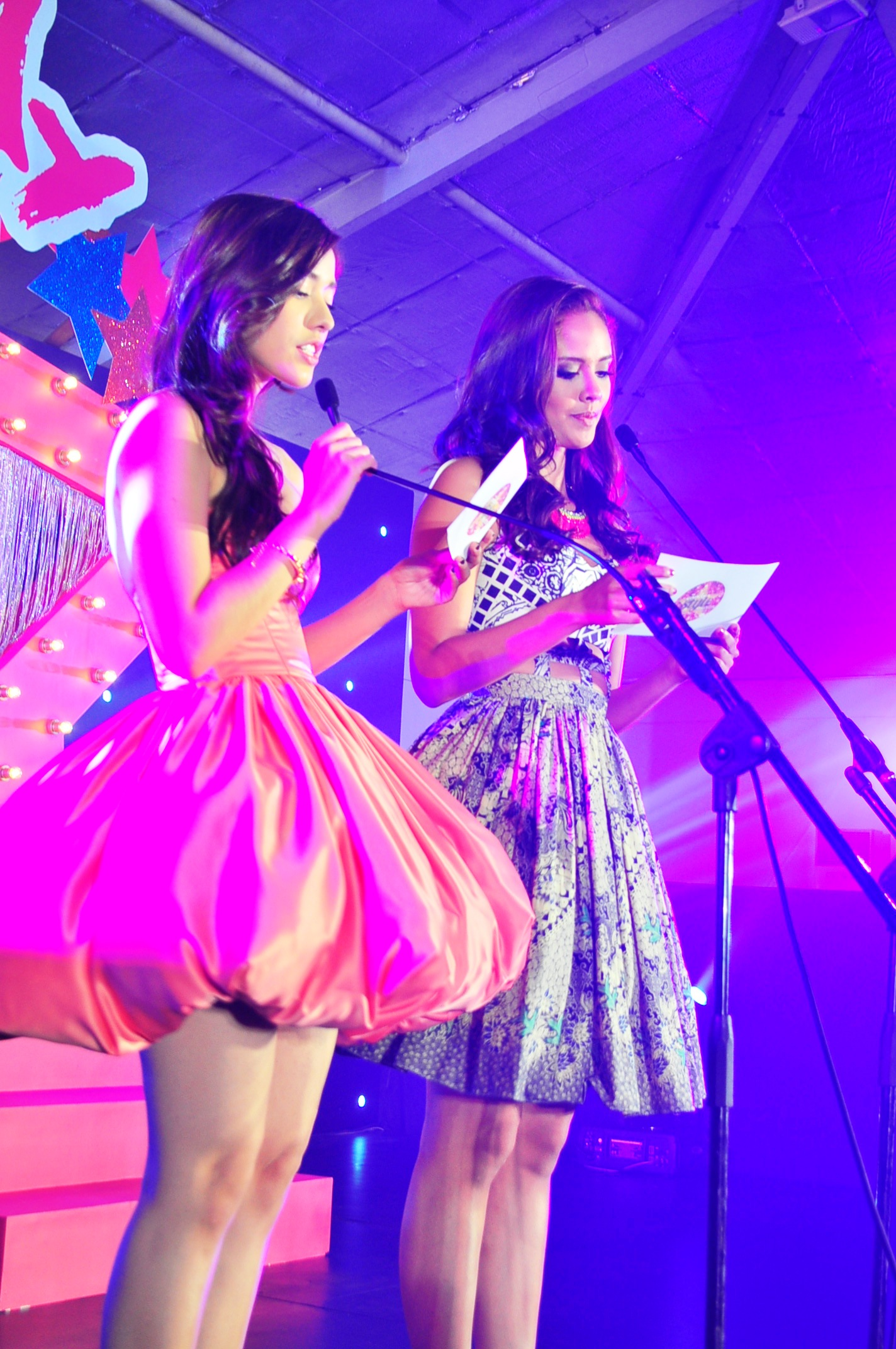 American/Philippine actress Lauren Young (L) and beauty queen Megan Young (R), at the 2013 Candy Style Awards